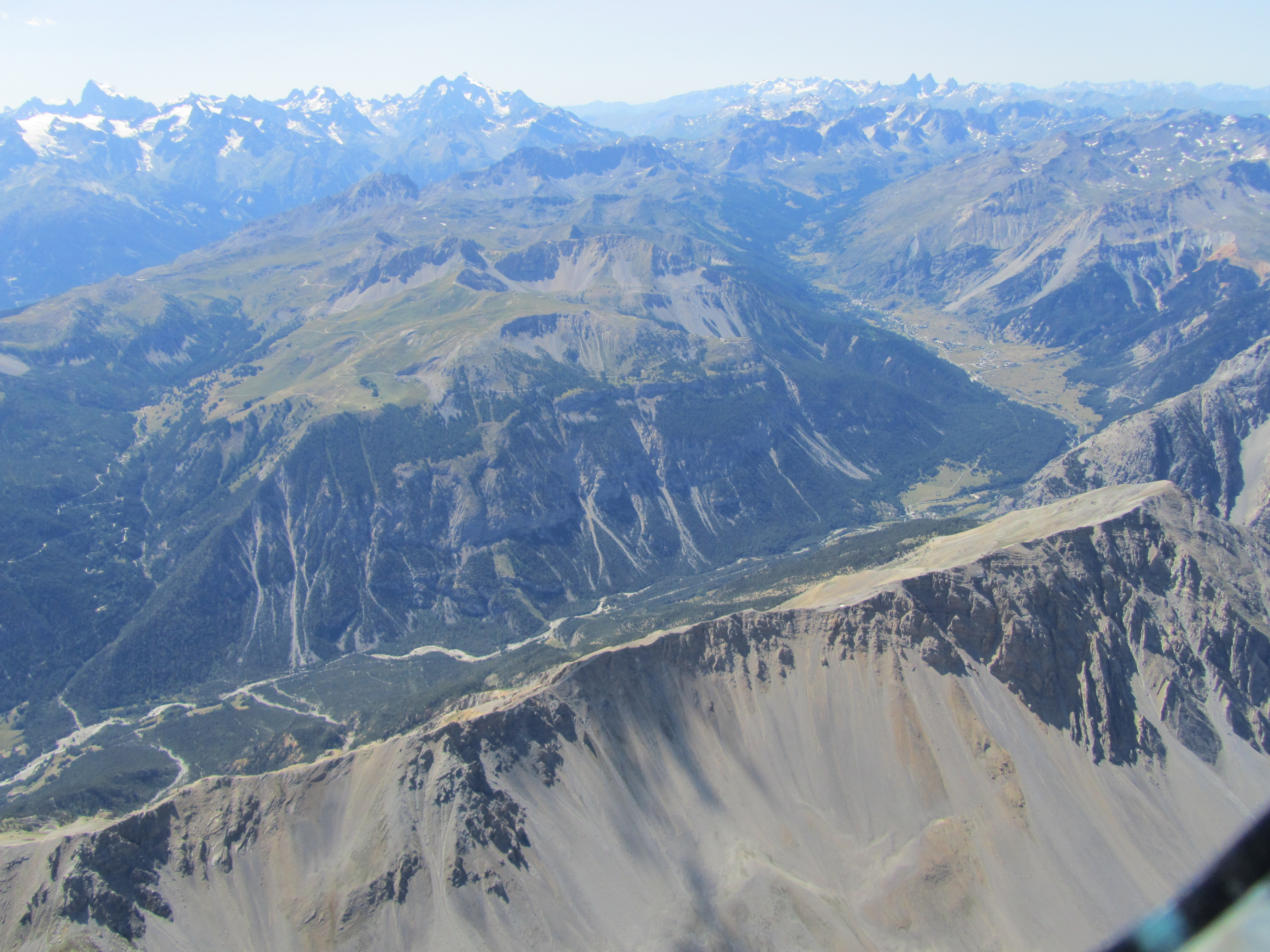 Looking north west from above Italian border. Taken from a glider